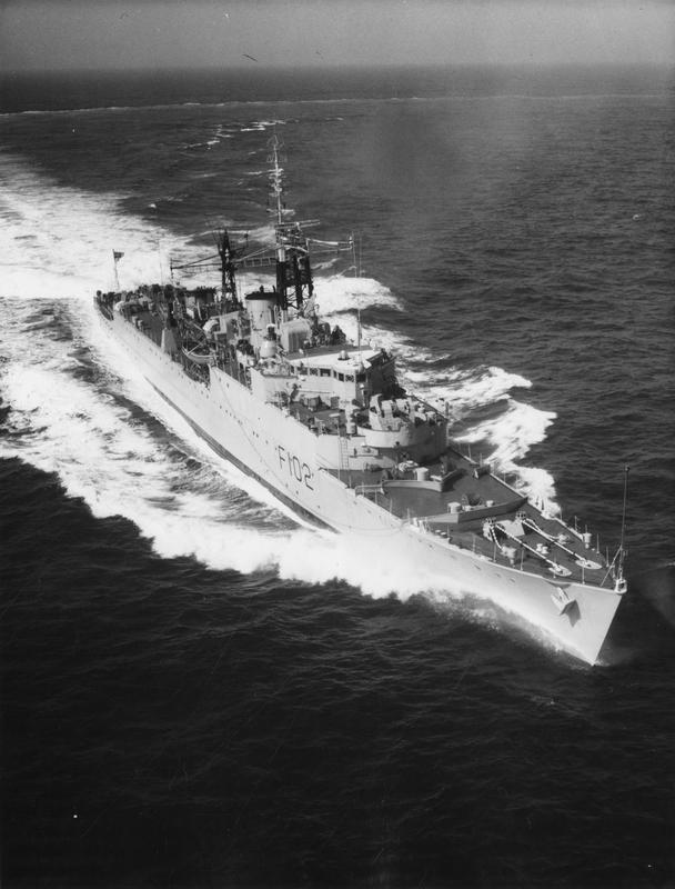 Type 15-class frigate HMS Zest (F102), 1958 (IWM HU 130056)